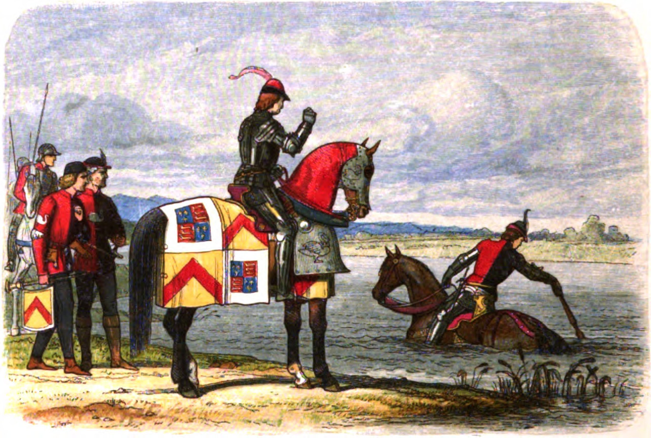 Henry Stafford, 2nd Duke of Buckingham, finds the River Severn swollen after heavy rain, blocking his way to join a rebellion against Richard III of England.